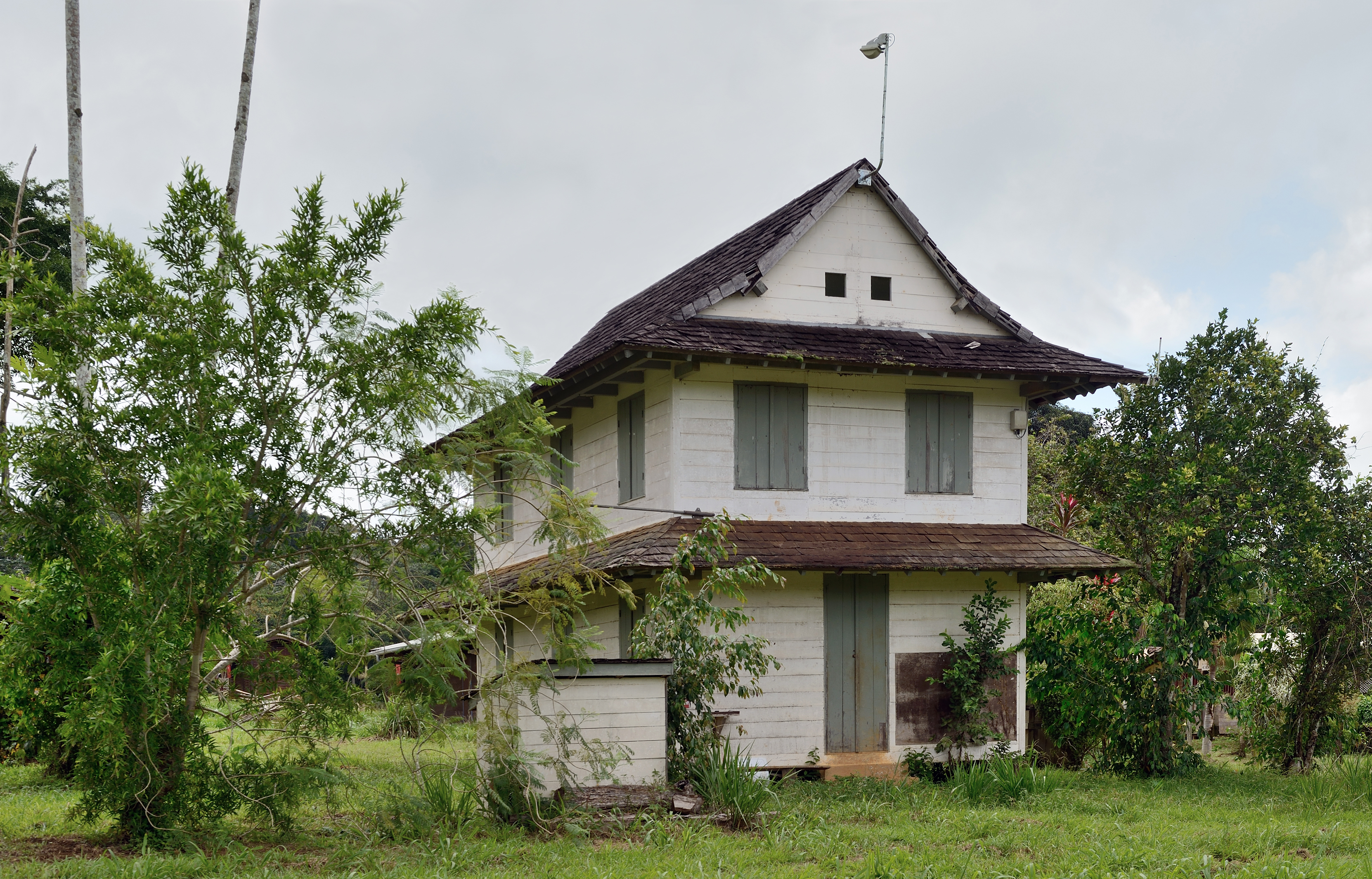 House in Saül, French Guiana in 2013.